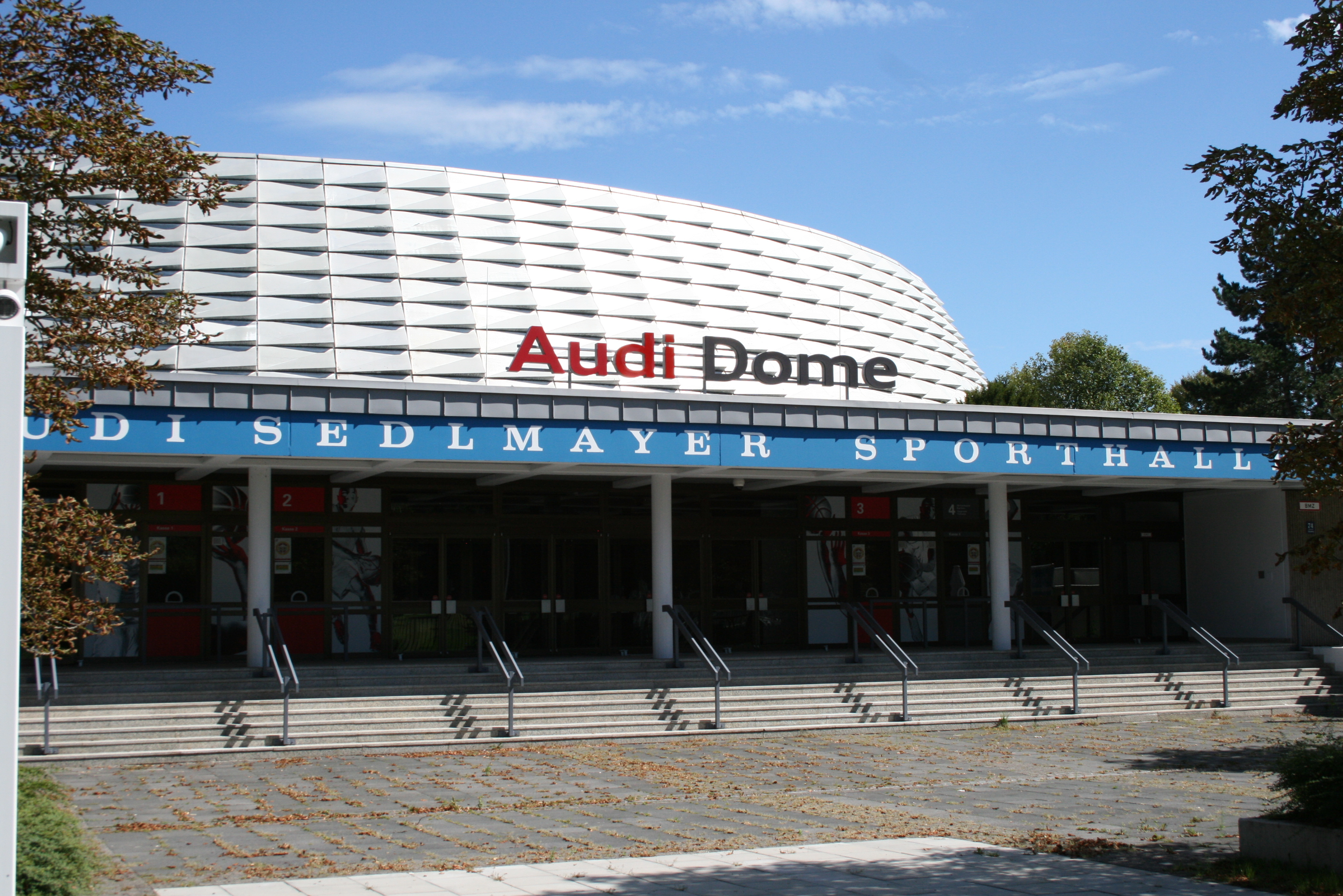 Audi Dome: Home of FC Bayern Munich Basketball